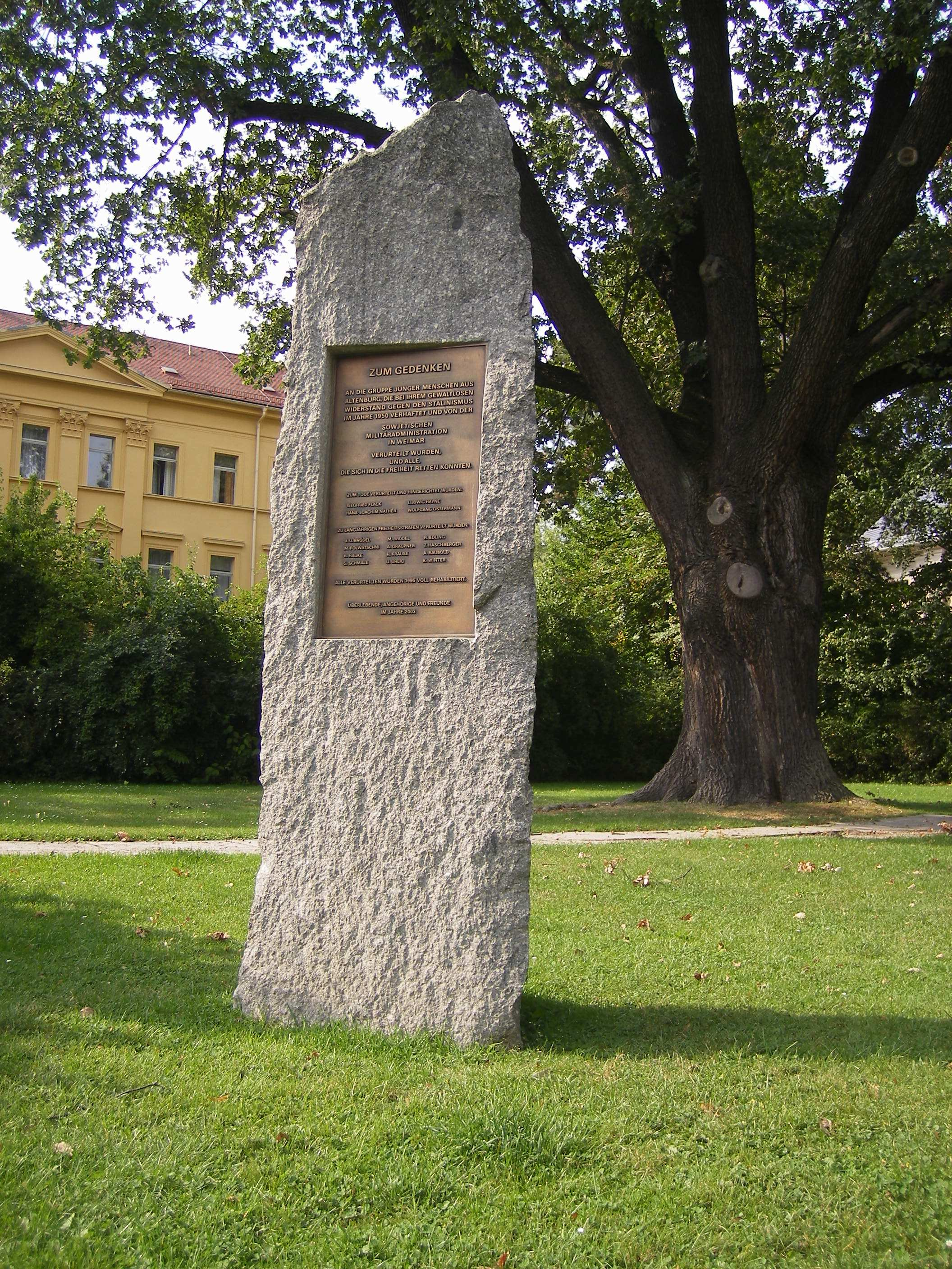 Monument of the youth opposition in 1950´s in Altenburg/Thuringia